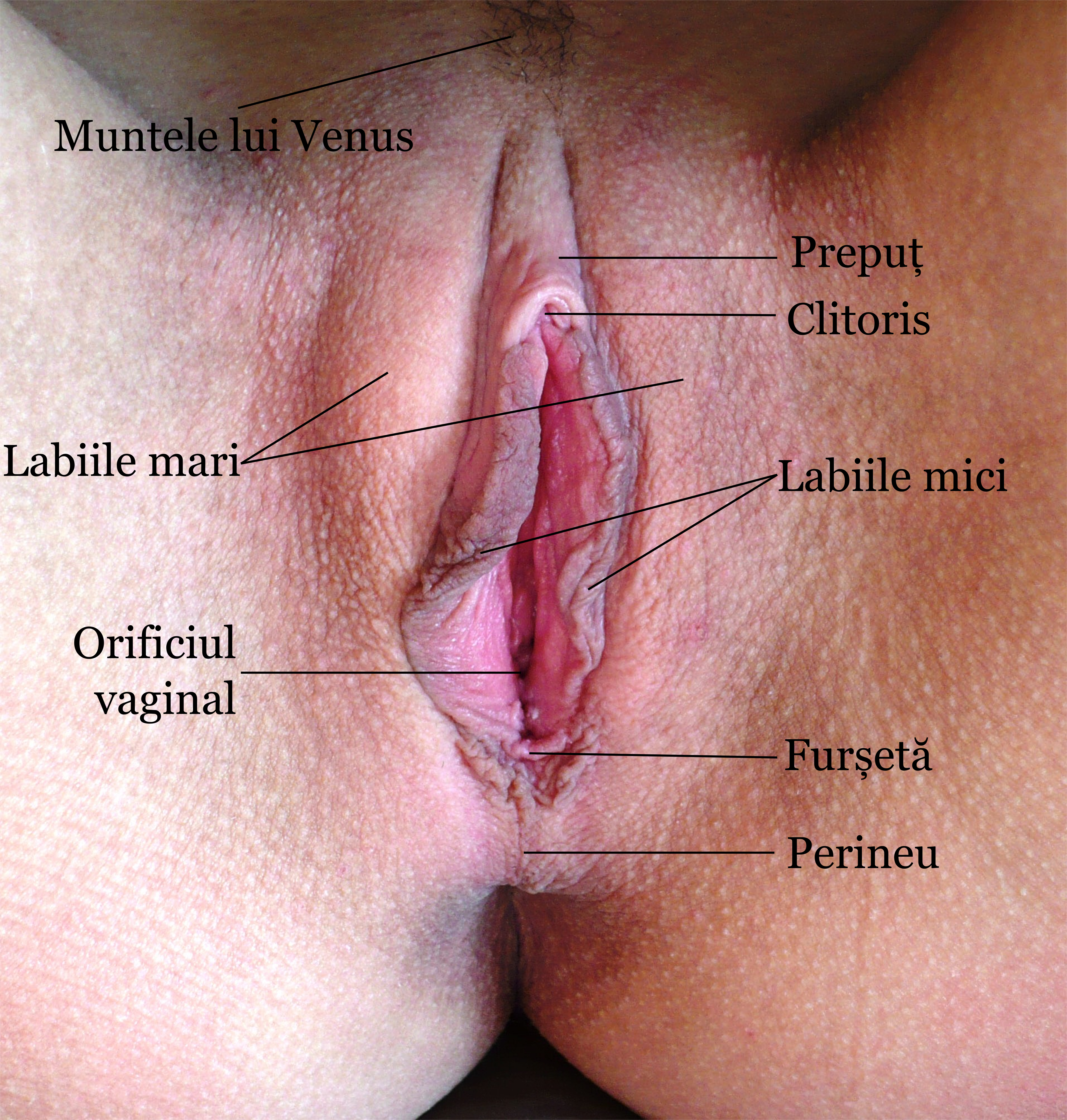 Female External Genital Organs